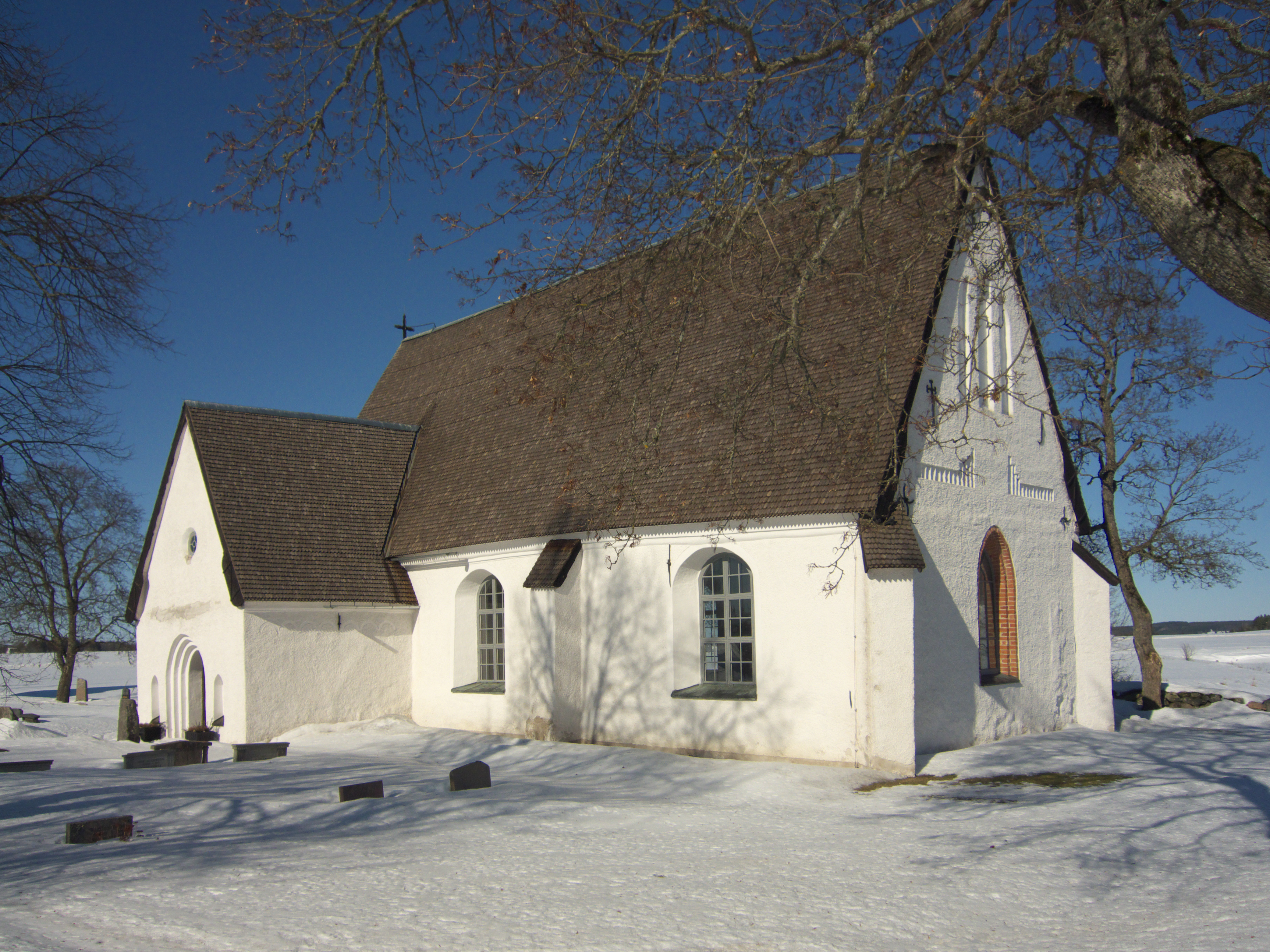 Långtora church